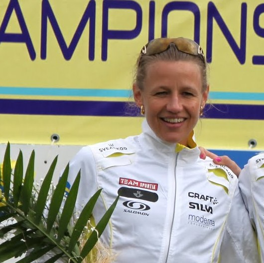 Helena Jansson, Lena Eliasson, Karolina Arewång-Höjsgaard at European Orienteering Championships 2010